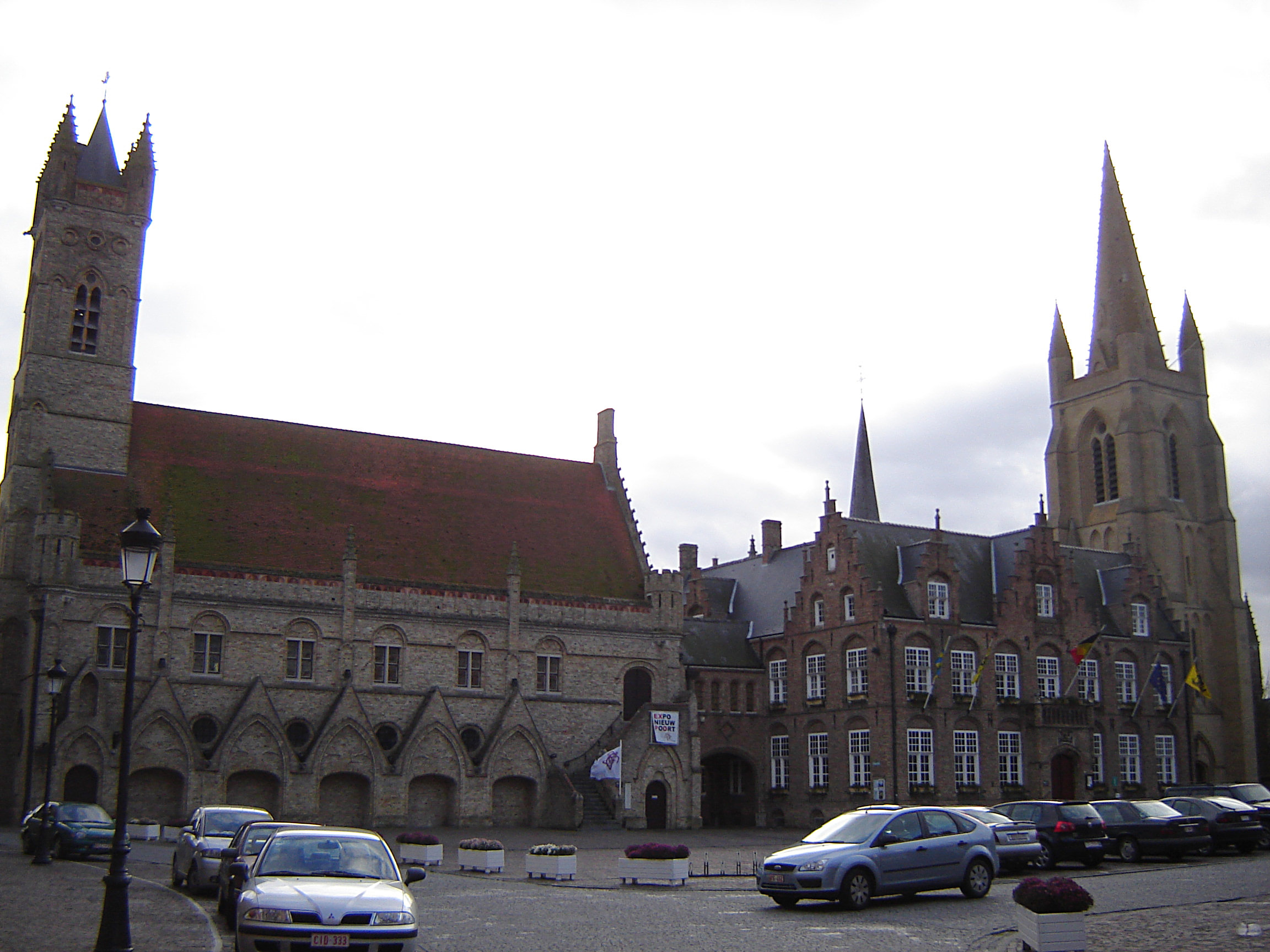 "Marktplein" market square of Nieuwpoort with belfry and hall, city hall and church of Our Lady. Nieuwpoort, West Flanders, Belgium